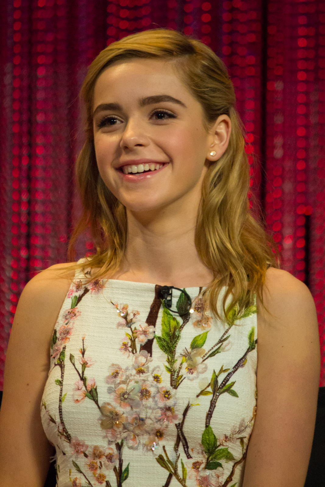 Actress Kiernan Shipka at The Paley Center For Media's PaleyFest 2014 Honoring "Mad Men"